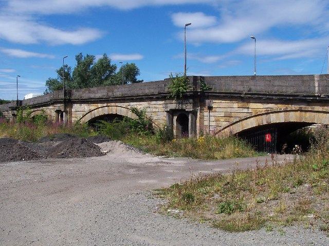 Old White Cart bridge. Built 1812 3-span ashlar bridge landlocked between Black Cart and White Cart bridges.